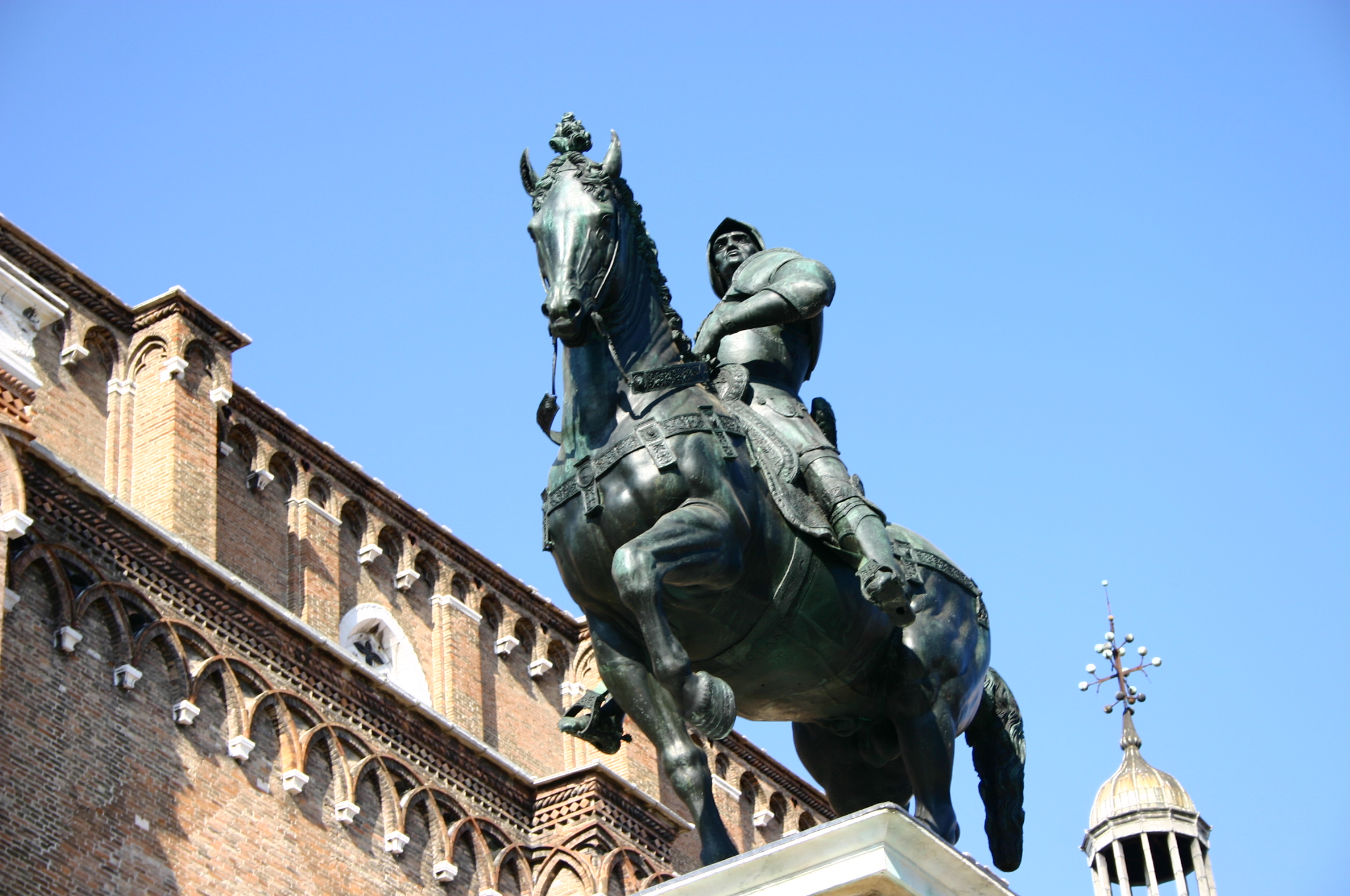 Bartolomeo Colleoni, bronze statue by Verrocchio, in Venezia, "Campo dei santi Giovanni e Paolo" square. Picture by Giovanni Dall'Orto, July 2, 2006.